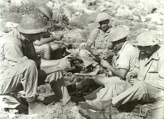 1941-08-07. NEW HONORS WERE WON BY AUSTRALIAN TROOPS IN THE FIGHTING AT DAMOUR IN THE SYRIAN CAMPAIGN. THESE MEN OF 2/16TH BN FUSED MILLS BOMBS DURING A LULL IN THE BATTLE.